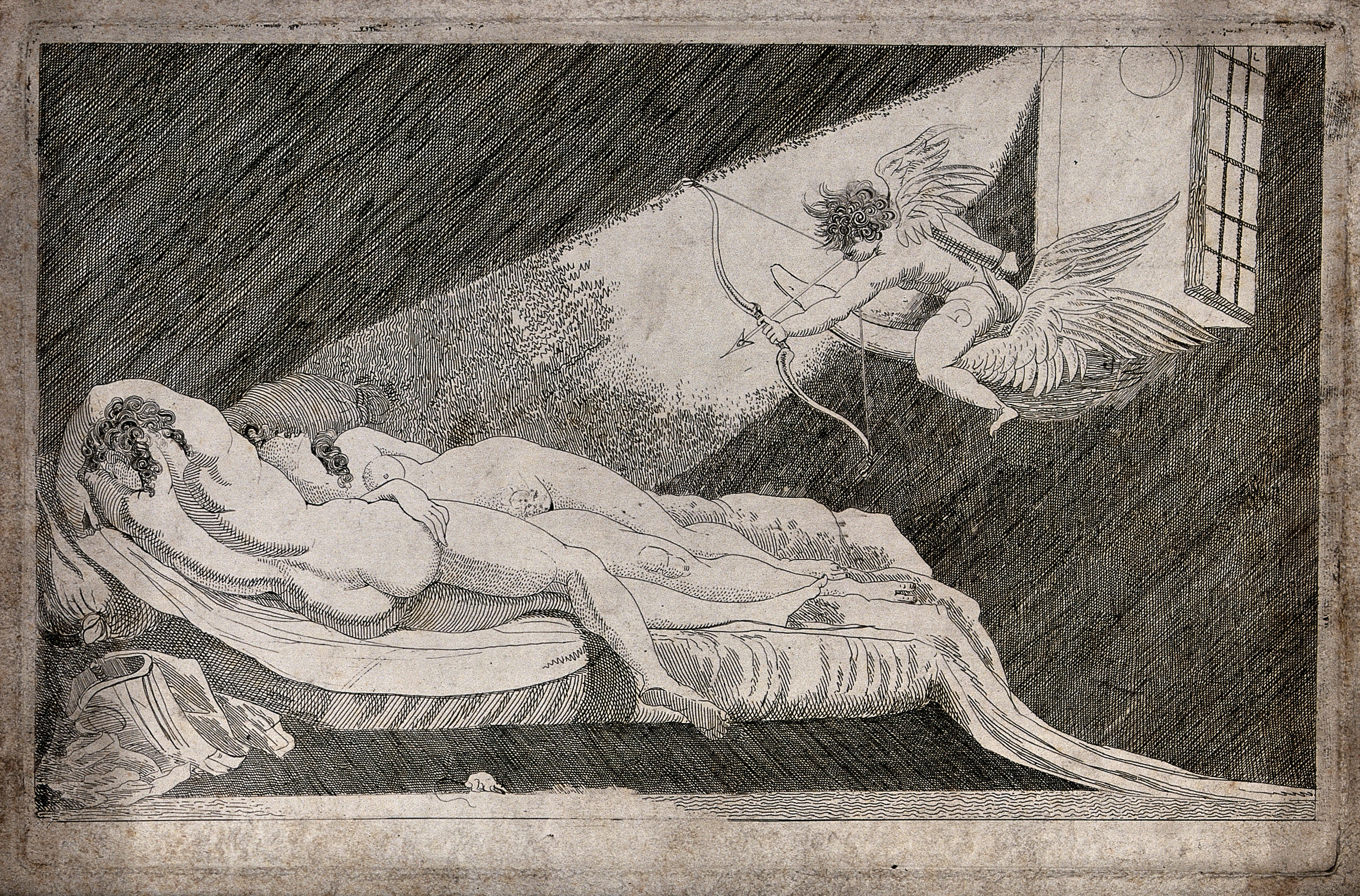 Cupid, armed with a bow and arrow, flies in through the window to a room where two naked lovers lie asleep on a couch. Etching. Iconographic Collections